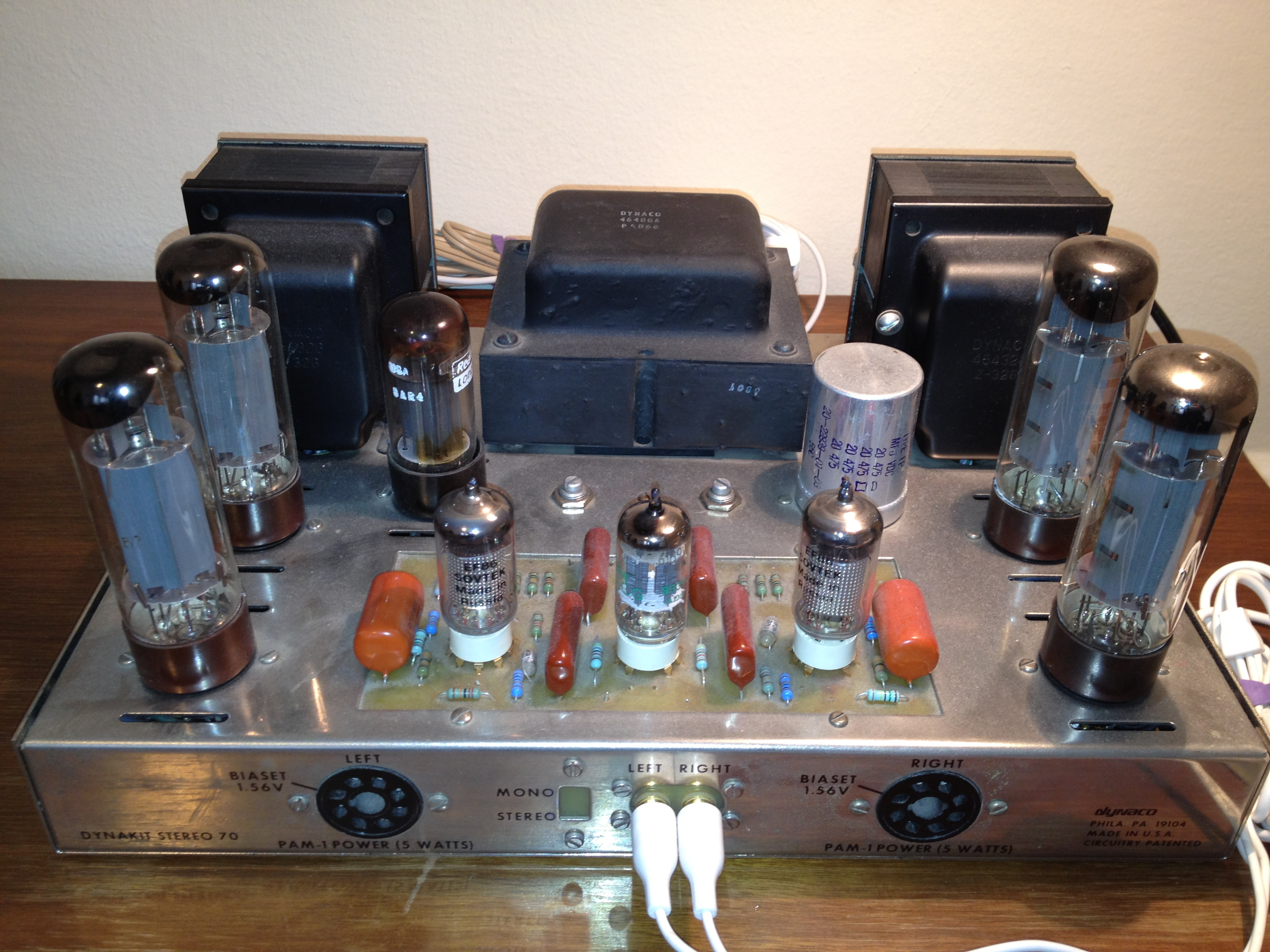 Dynaco ST-70, modded with input board by Triode Electronics